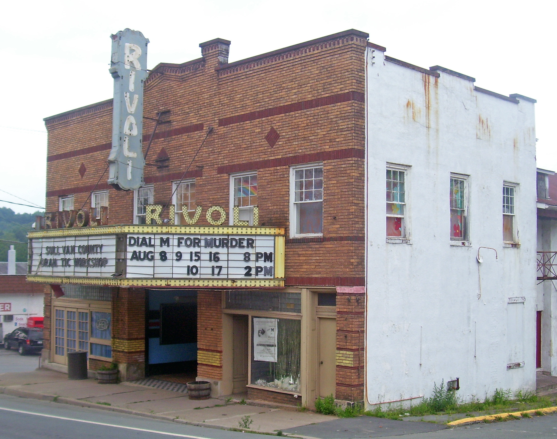 Rivoli Theater, in downtown South Fallsburg, NY, USA, on NY 42